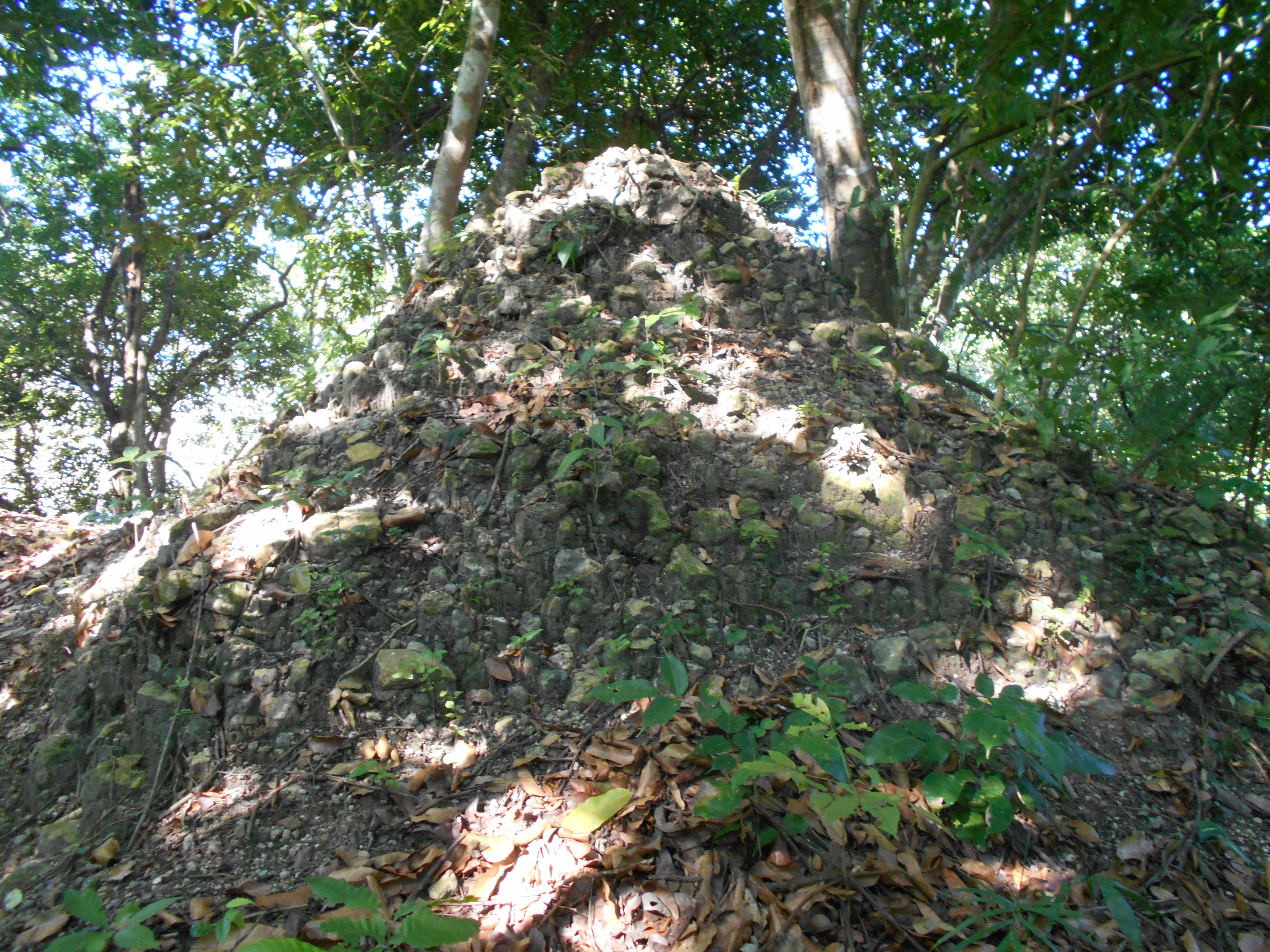 Tayazal archaeological site of the Late Classic Maya, located on the San Miguel peninsula, immediately north of Flores, Petén, Guatemala.